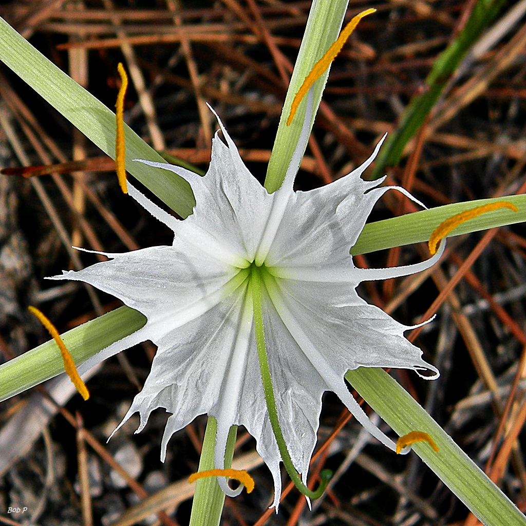 I found this solitary alligator lily blooming on a carpet of pine needles in the moist flatwoods at Sweetbay Natural Area.